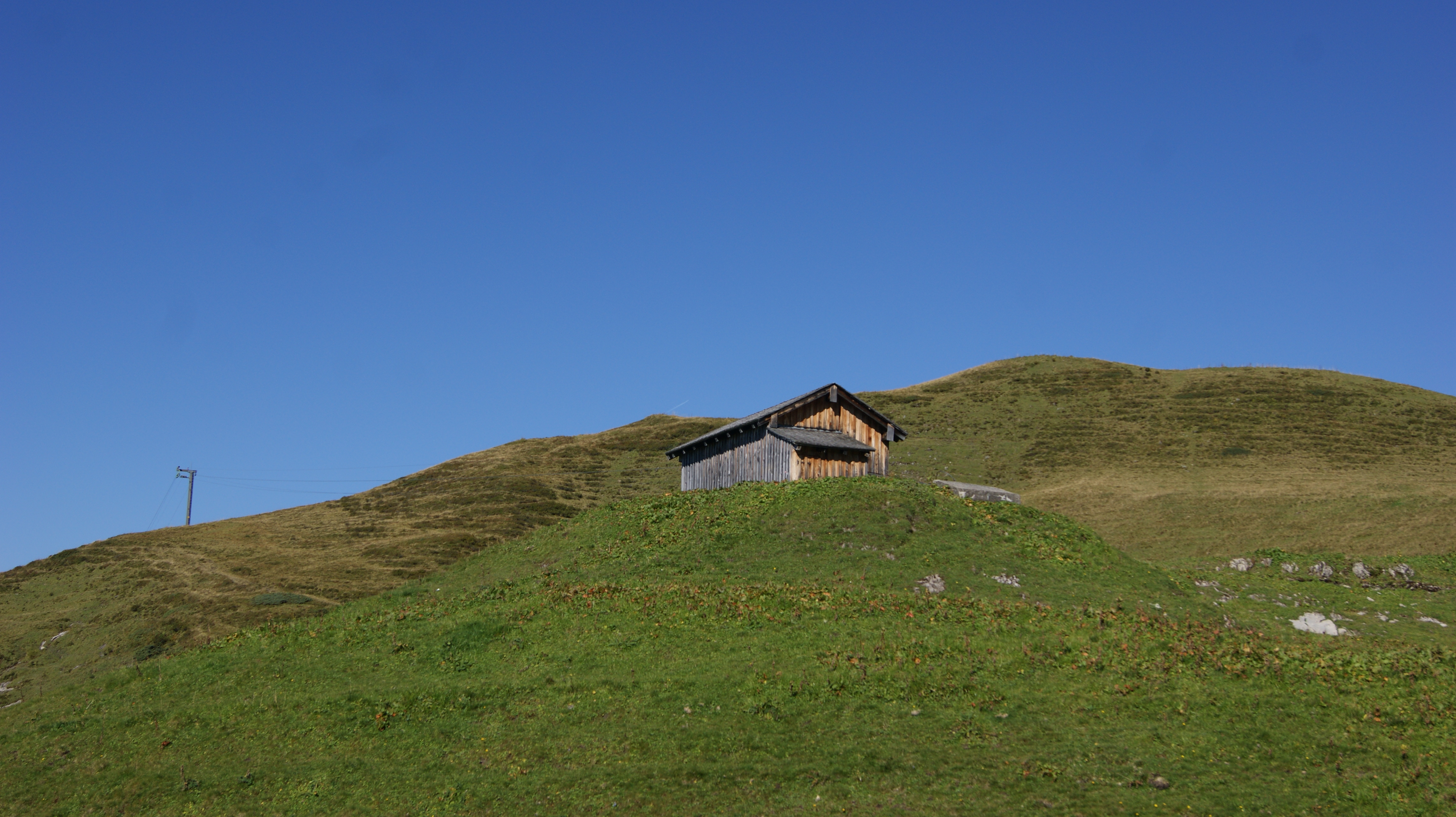 Top-station of the material ropeway of the Alp Suens in Dornbirn, Vorarlberg, Austria, 1764 masl. Year of construction 1951, Inclined length: 1425 m, Height difference: 315 m, Payload: 320 kg, no passenger transport allowed.